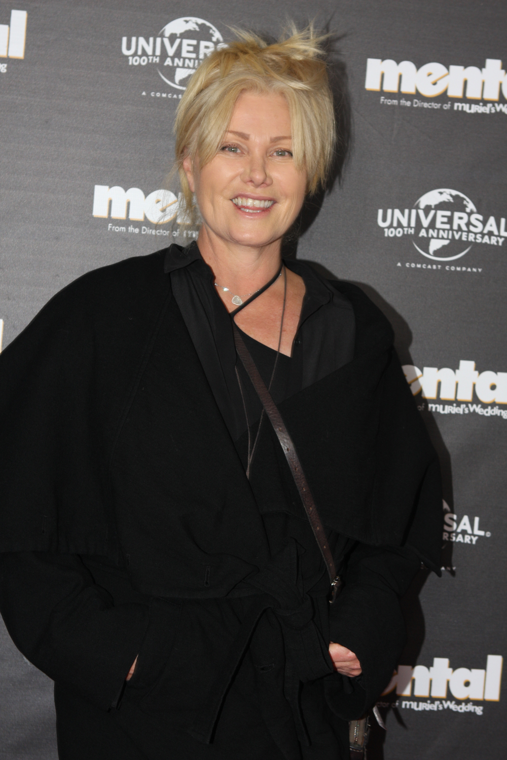 Mental movie premiere at Event Cinemas, Sydney, Australia This evening 'Mental' enjoyed its Australian movie premiere at Event Cinemas, George St, Sydney. The weather was wet outside, but the atmosphere was warmish inside, as Sydney enjoyed yet another red carpet event. Australian filmmaker PJ Hogan reunites with his "Muriel’s Wedding" star Toni Collette with Liev Schreiber, Anthony LaPaglia and Rebecca Gibney. Plot... A charismatic, crazy hothead transforms a family's life when she becomes the nanny of five girls. Director: P.J. Hogan Writer: P.J. Hogan Stars: Liev Schreiber, Toni Collette and Caroline Goodall Websites Mental official website Universal Pictures Australia Event Cinemas Eva Rinaldi Photography Eva Rinaldi Photography Flickr Music News Australia